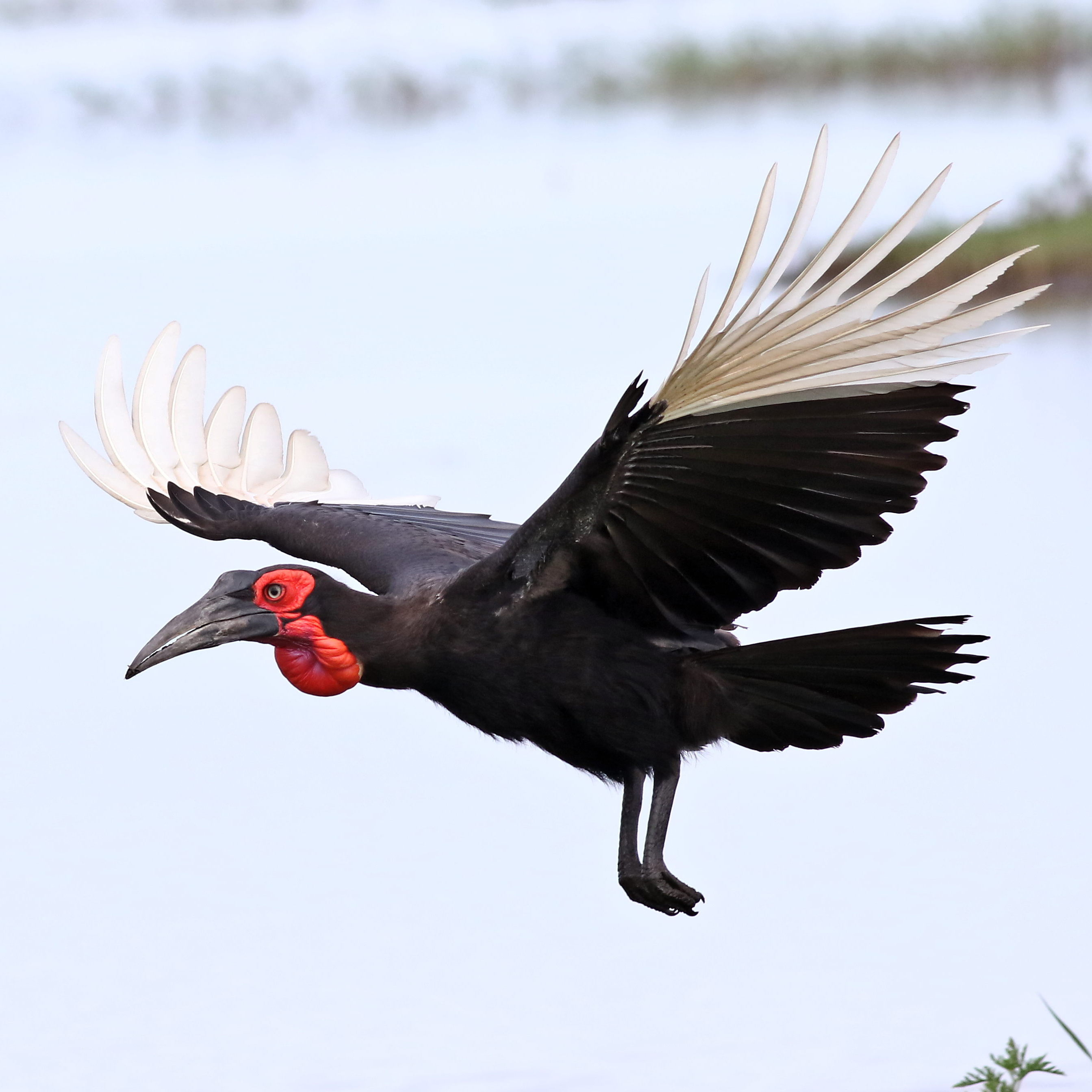 Ground Hornbill, Chobe National Park, Botswana